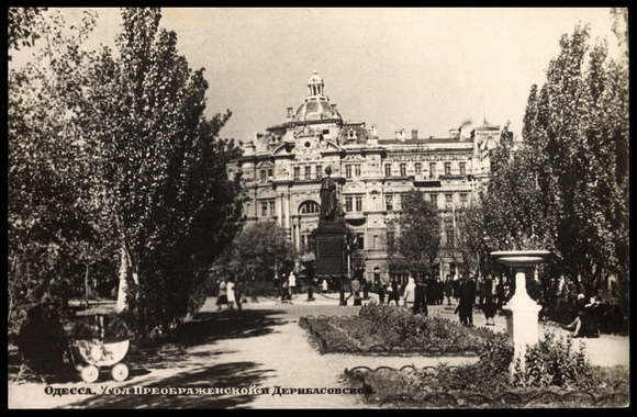 Carte Postale Odessa dom Russova circa 1960.